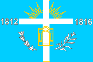 Former flag of Tucuman province, Argentina